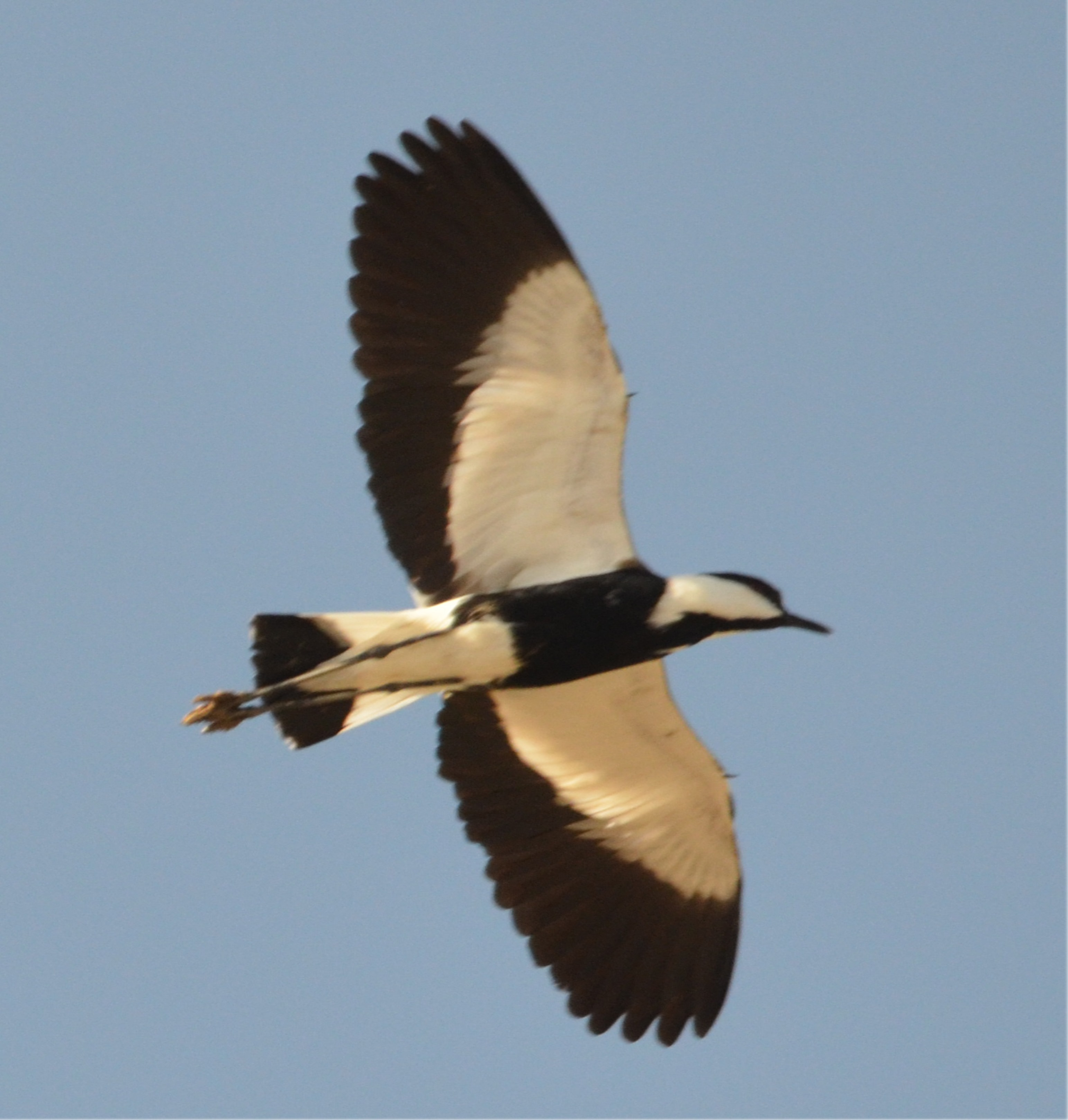 Spur-winged Lapwing at Fayoum